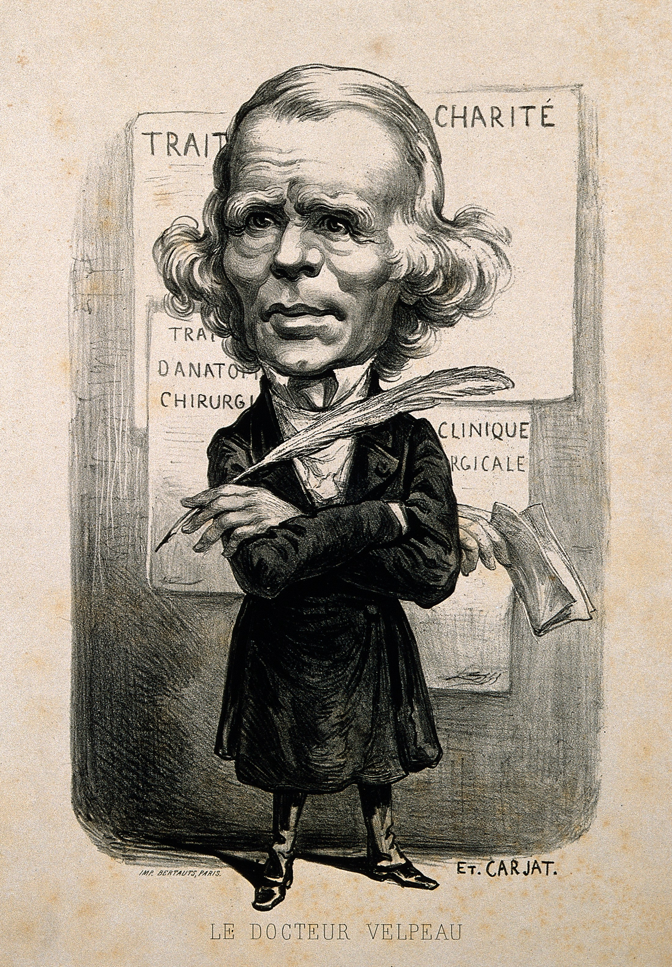 Iconographic Collections